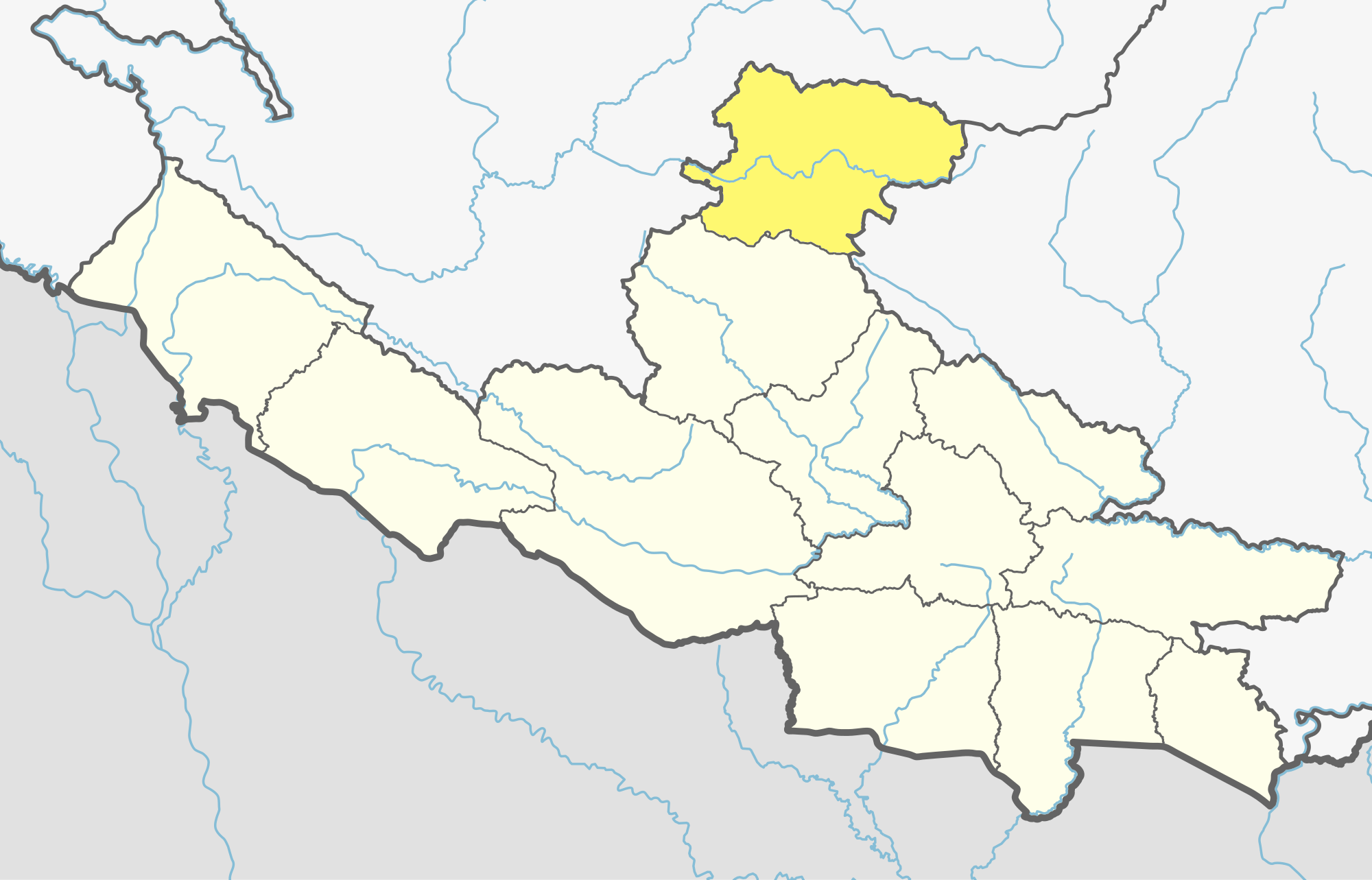 East Rukum District